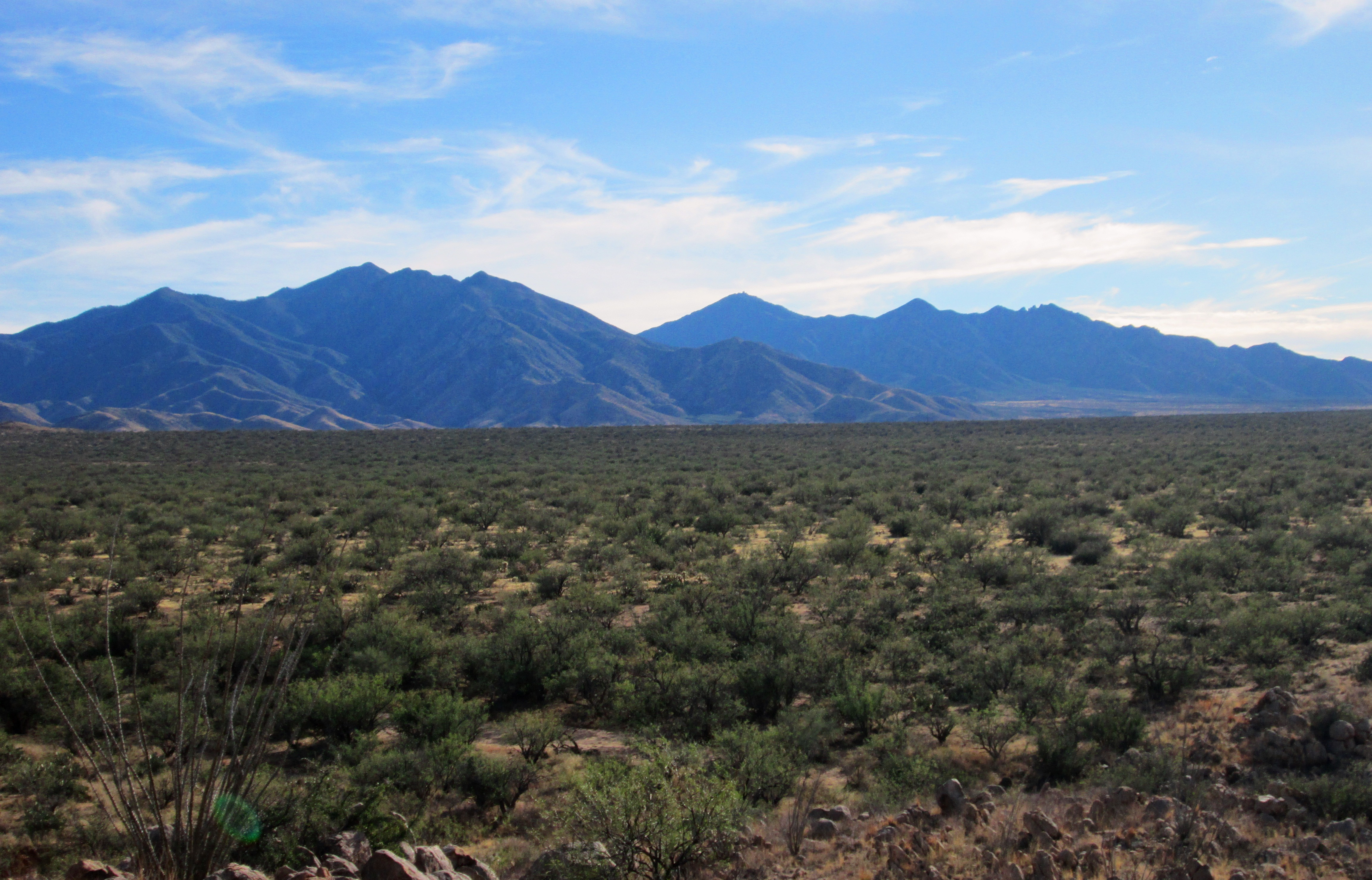 The Santa Ritas, located about 65 km (40 mi) southeast of Tucson, Arizona,USA.